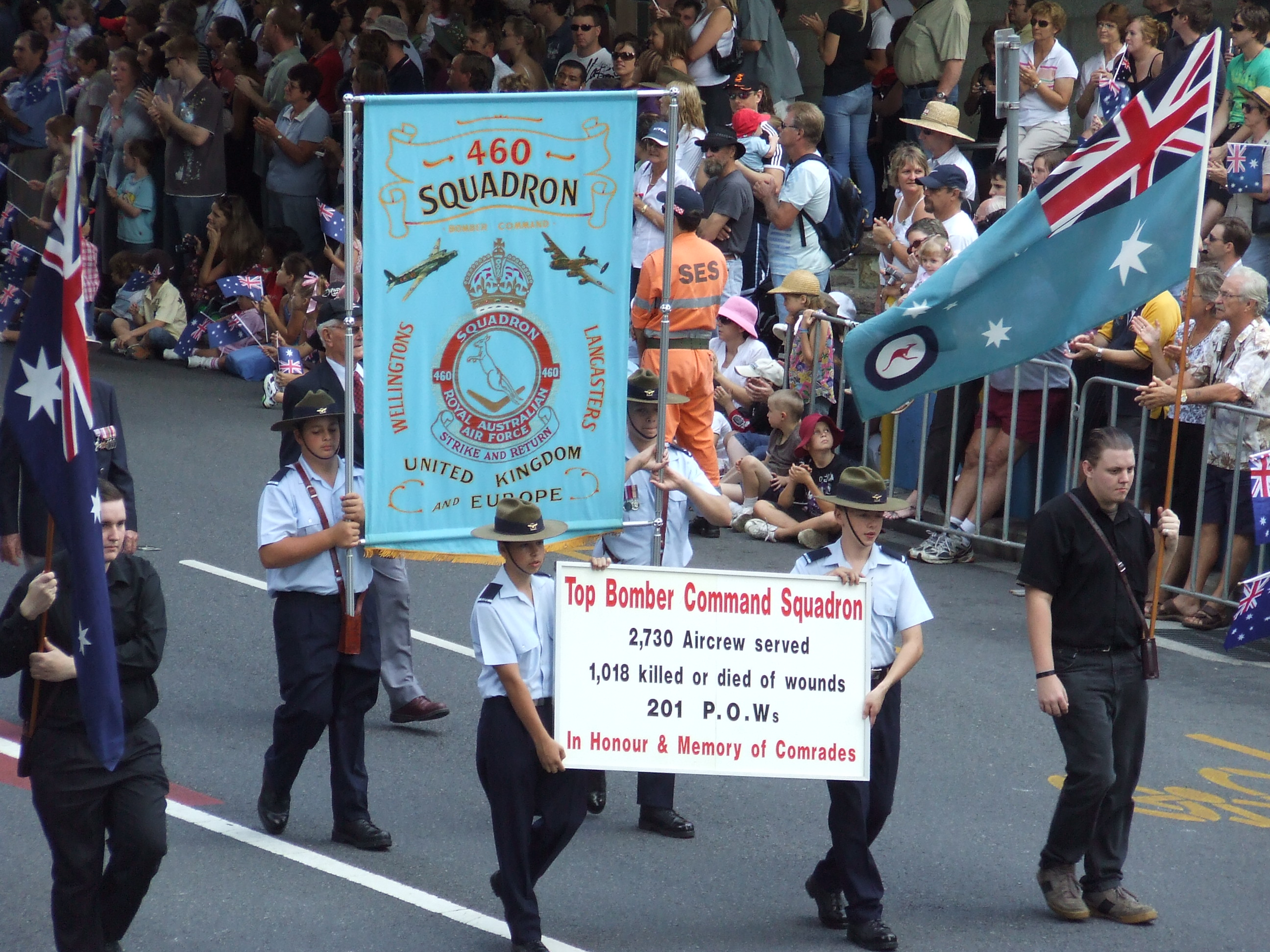 The No. 460 Squadron RAAF is remembered as part of the 2007 Anzac Day Parade in Brisbane. Flag bearers are: Australian Flag - Jarod Saunders, Royal Australian Air Force Flag - Gene Van Uitregt.